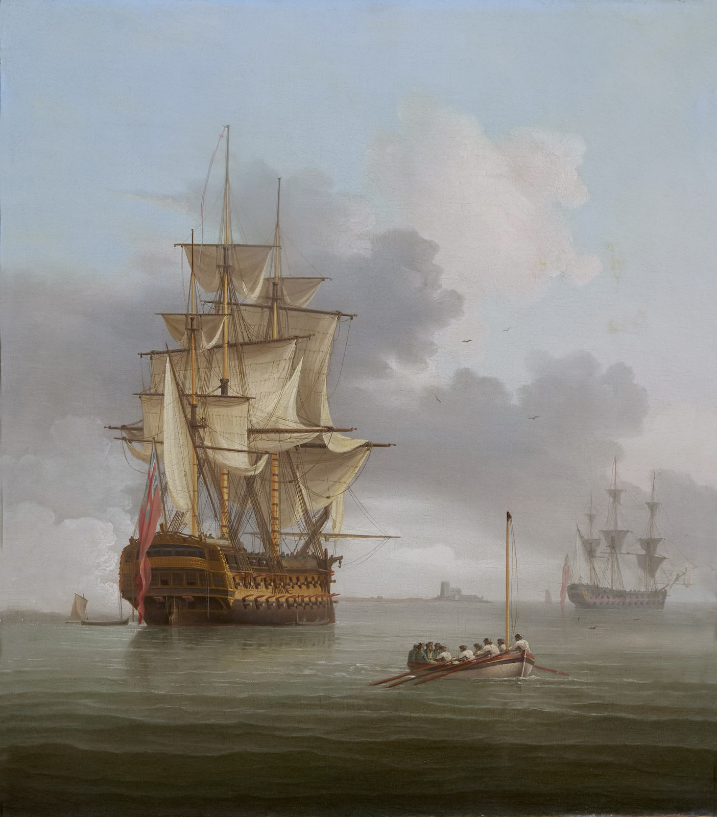 A becalmed man o'war firing a salute oil on canvas 46.9 x 41.9 cm. signed b.l: THW - 1797